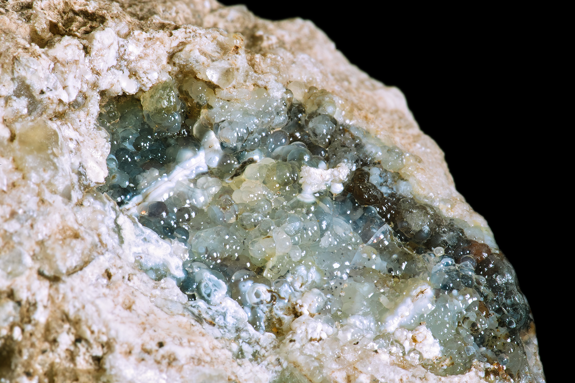 Hyalite, incrustation on common opal. Locality: Bohouskovice near Kremze, Czech Republic. Crop of 20×14 milimeters.